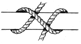 line art drawing of a clove hitch.